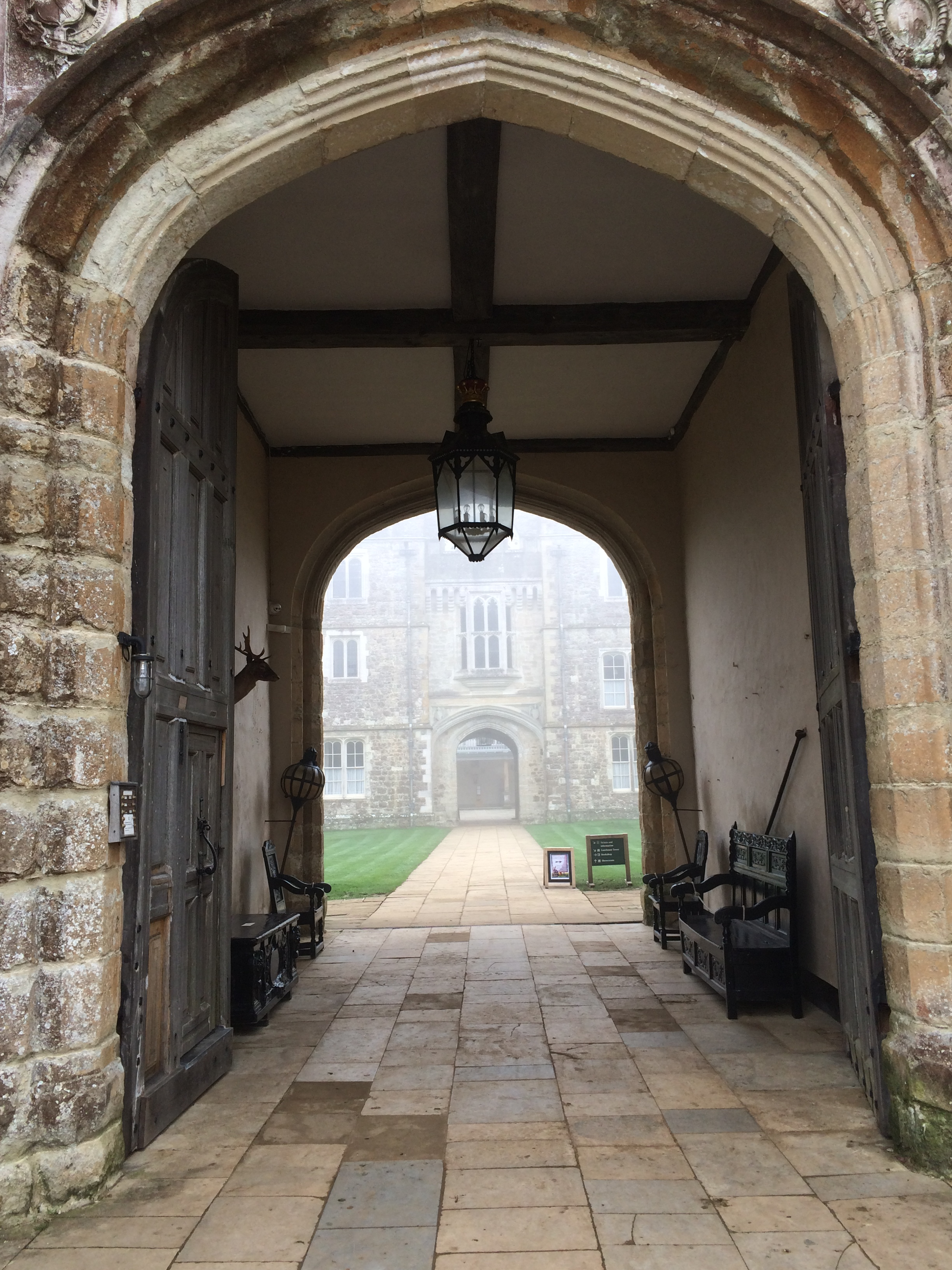 View through main gateway at Knole House, Sevenoaks, taken on a foggy morning, 12.4.2018